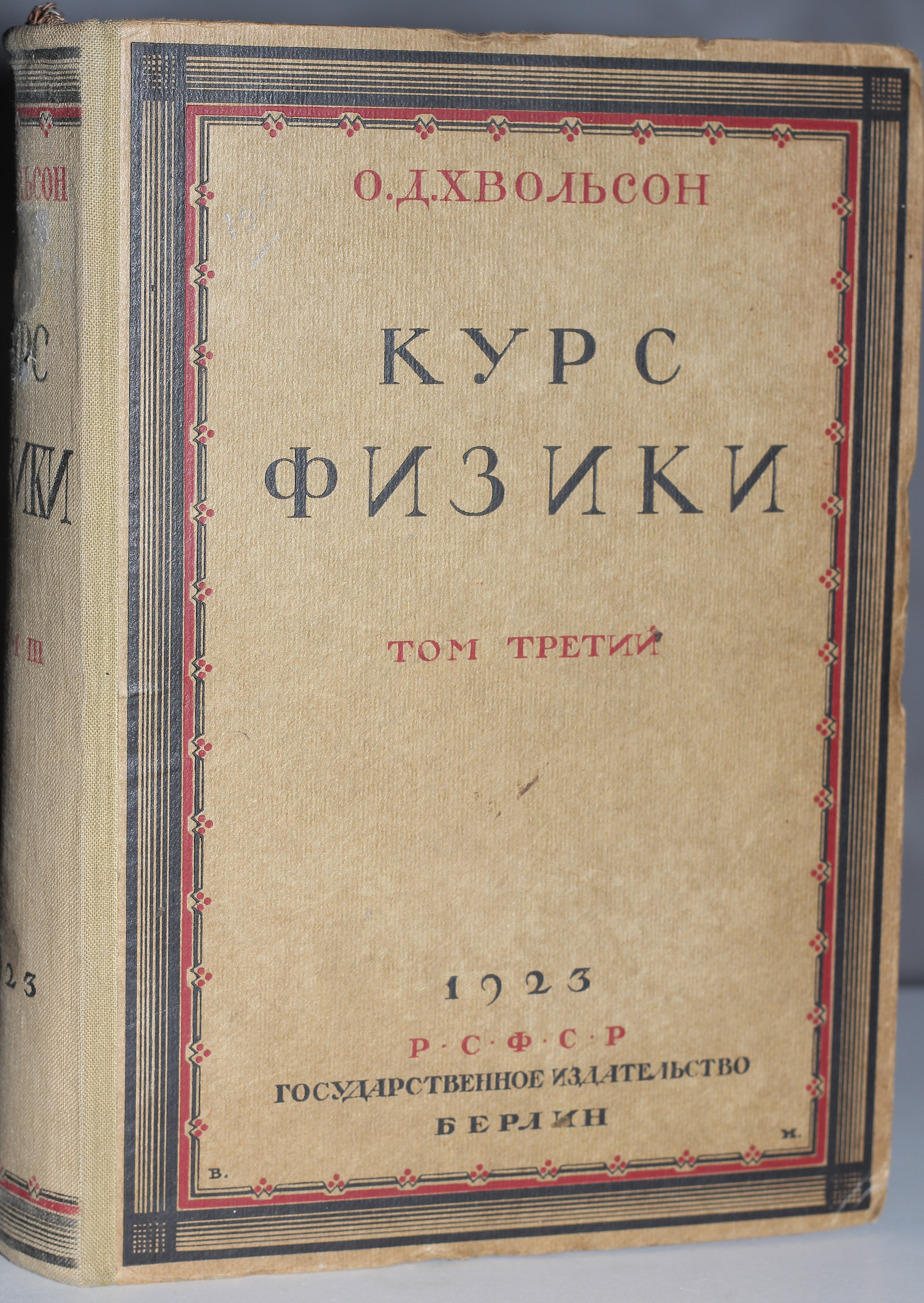 Orest Khvolson Russian physicist. Book